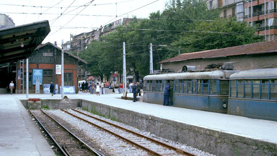 Train station in Amara